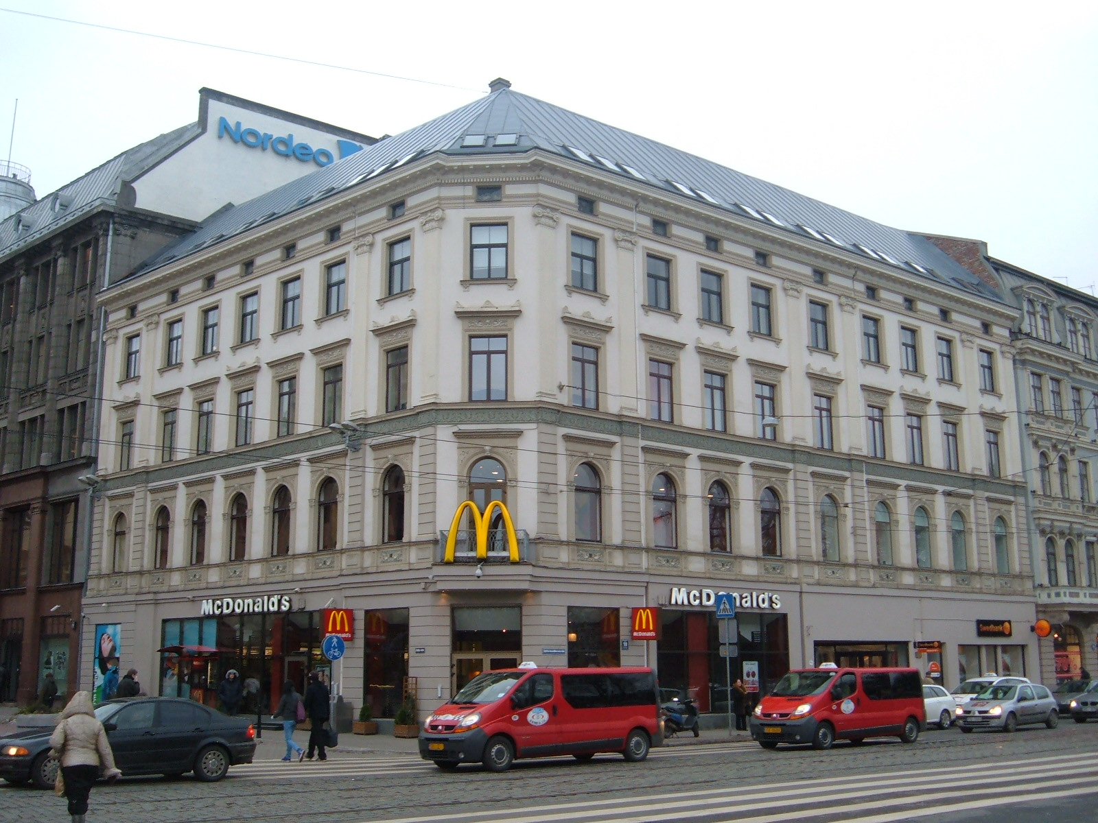 McDonald's in Riga center